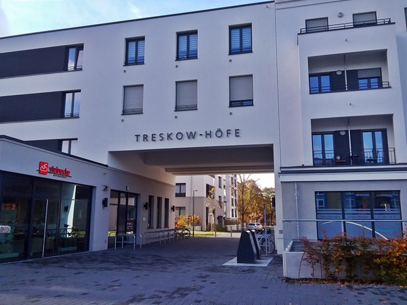 Treskov Farms